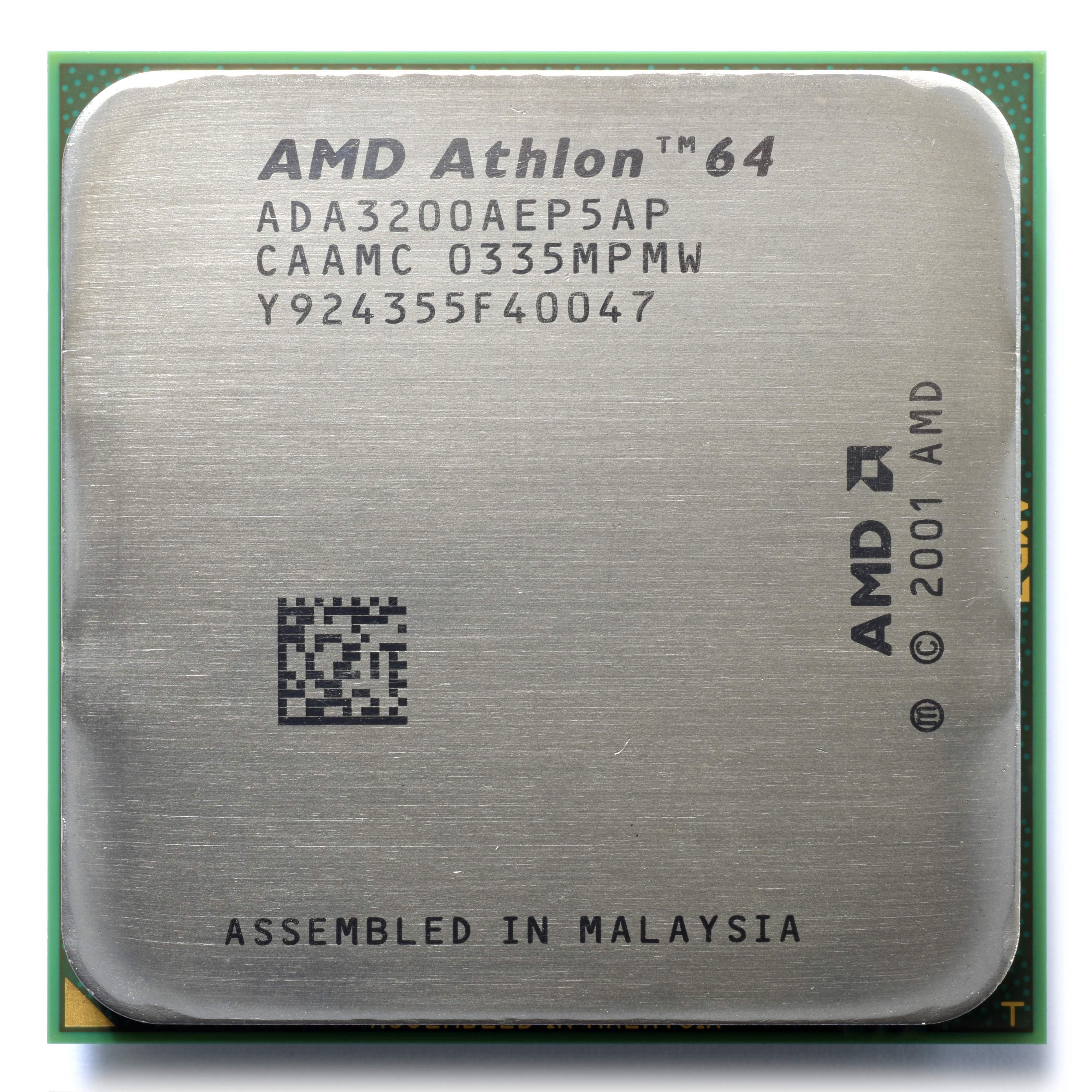 An AMD Athlon 64 3200+ processor (ADA3200AEP5AP, Clawhammer).